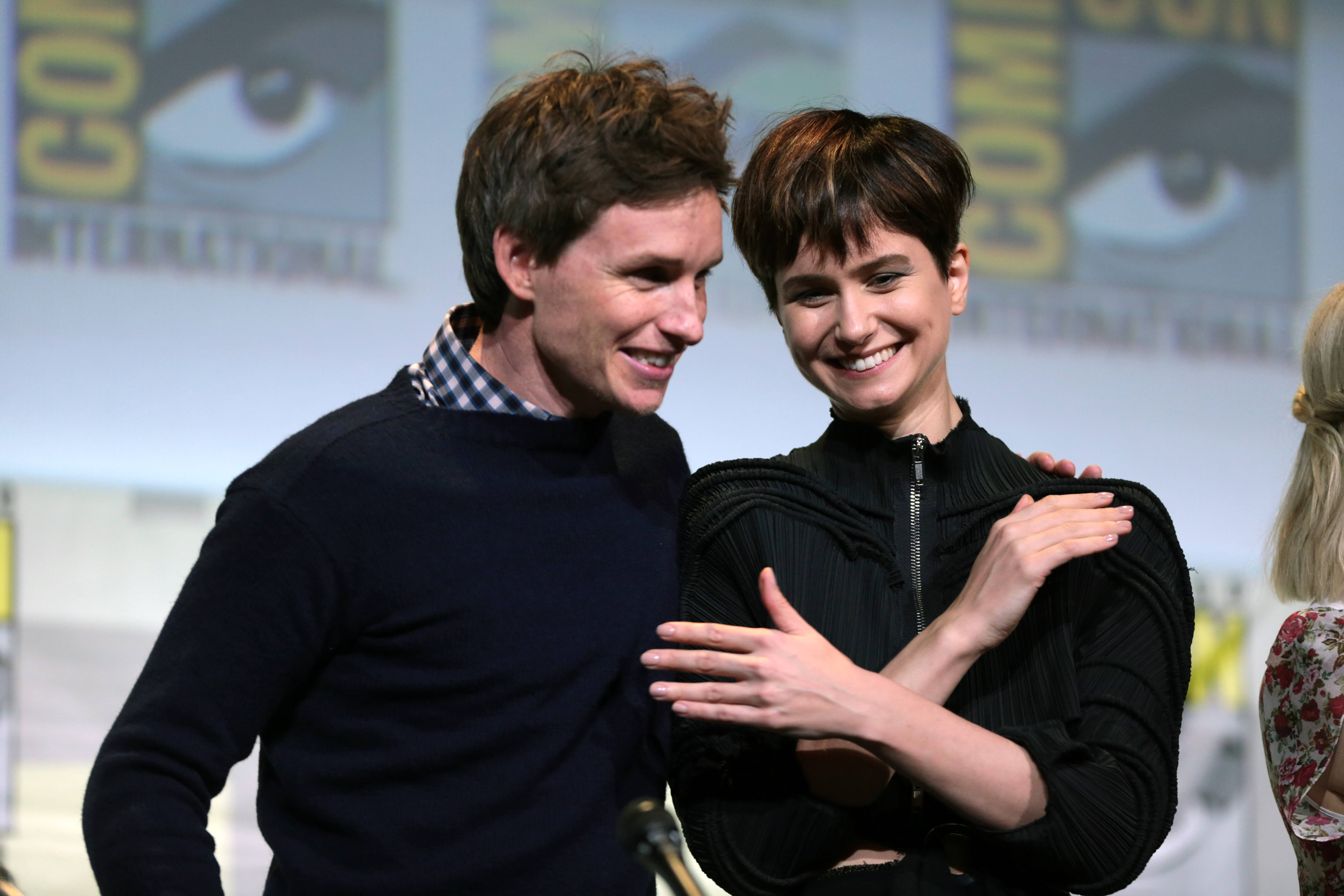 Eddie Redmayne and Katherine Waterston speaking at the 2016 San Diego Comic Con International, for "Fantastic Beasts and Where to Find Them", at the San Diego Convention Center in San Diego, California.